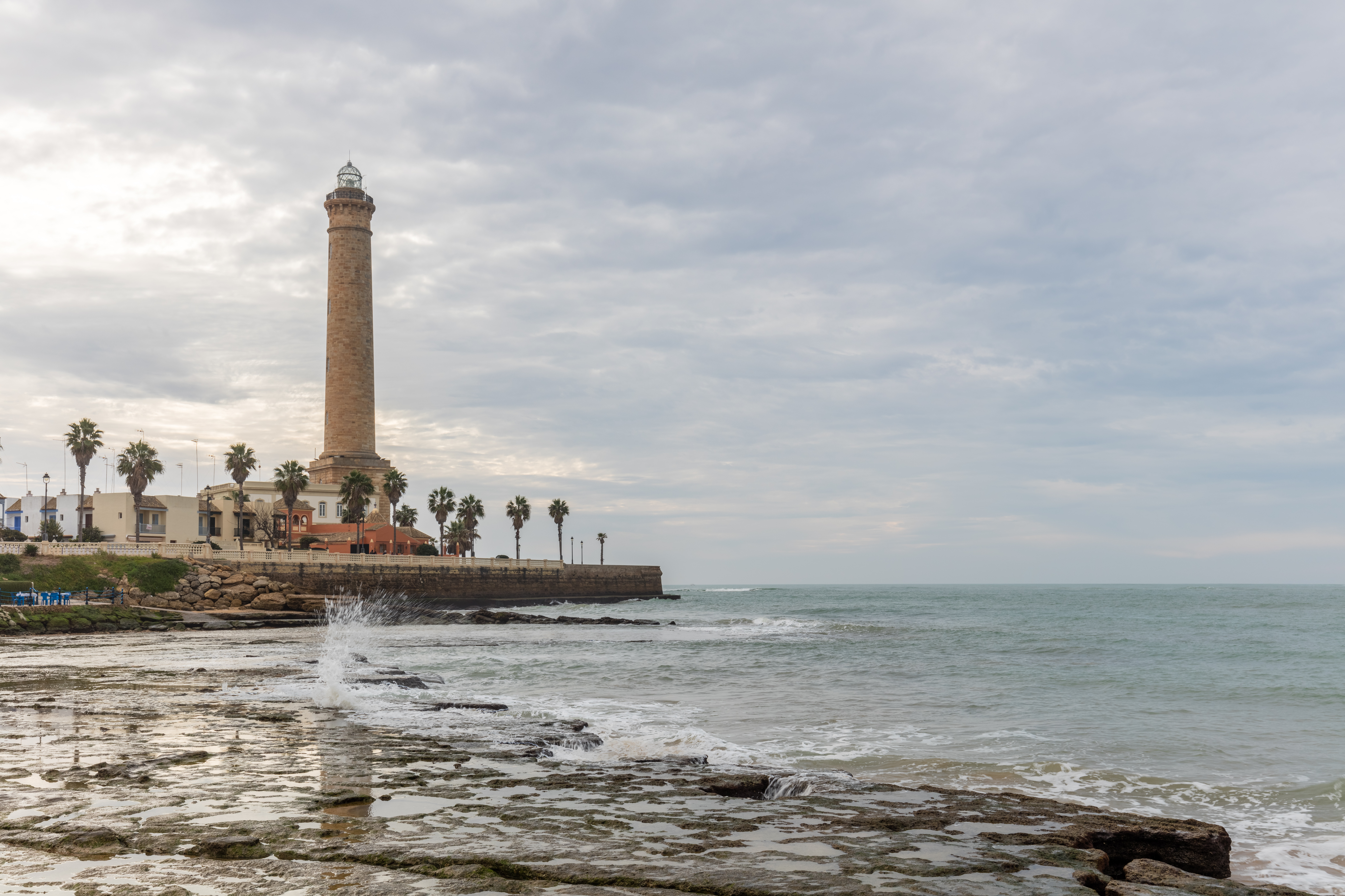 Chipiona Lighthouse, Spain